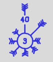 example of wind rose from a pilot chart